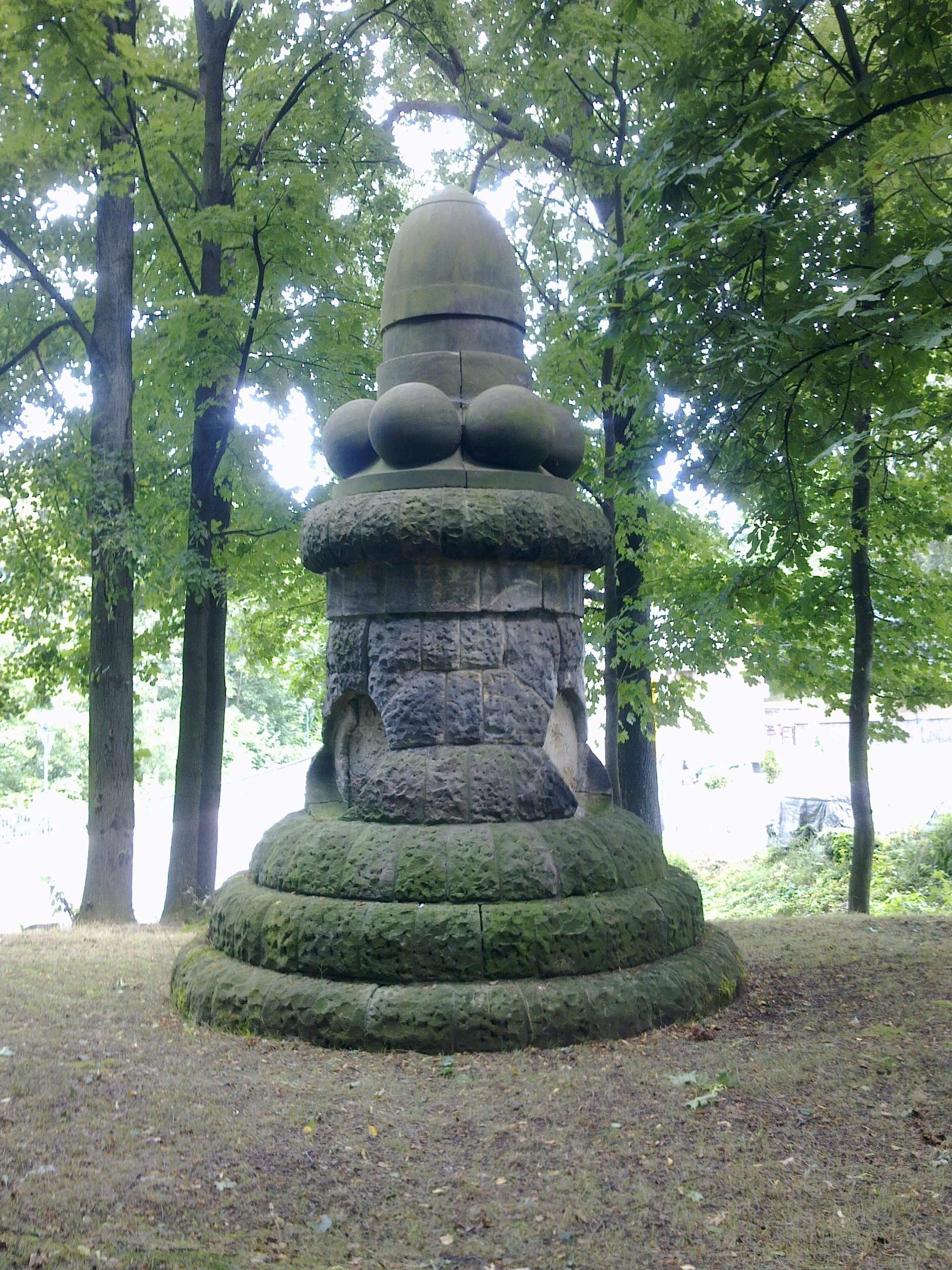 memorial in Reinholdshain (Dippoldiswalde), near Glashuetter Strasse 24